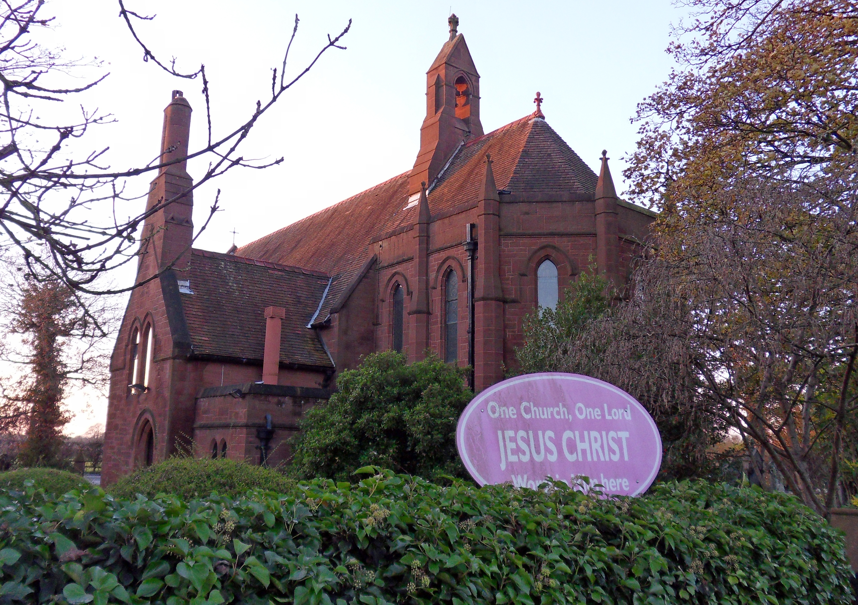 Roman Catholic church of St Mary of the Angels, Hooton, Cheshire, seen from the east